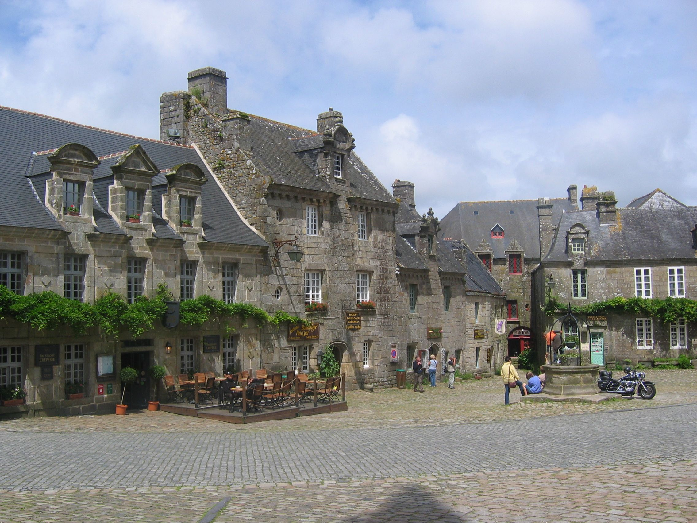 Locronan, Finistère, Brittany